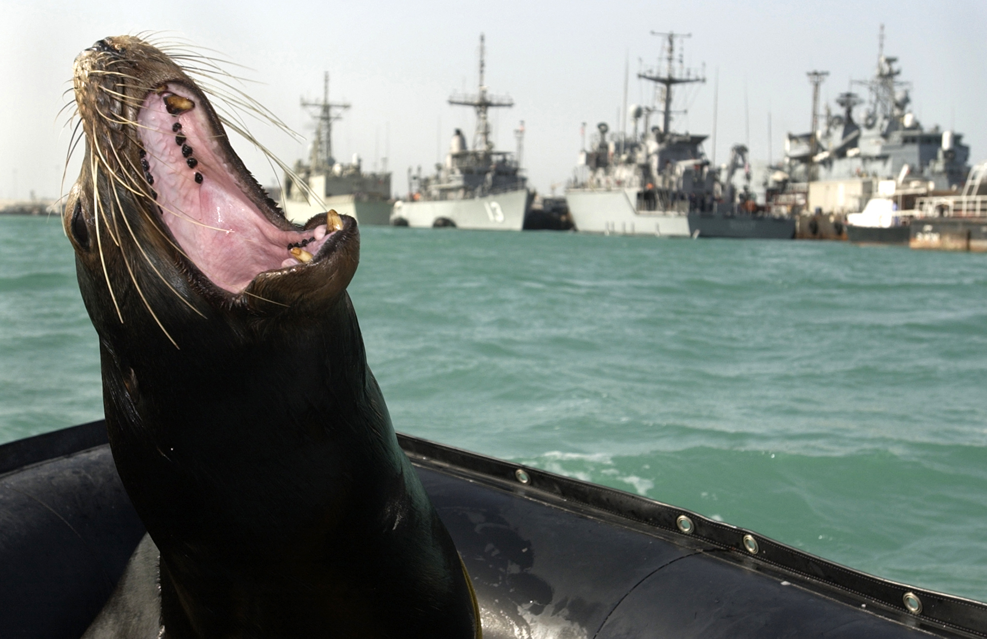 Central Command Area of Responsibility (Jan. 29, 2003) -- Zak, a 375-pound California sea lion, shows his teeth during one of many training swims taking place in the Central Command AOR. Zak is participating in the Space and Naval Warfare Systems Center’s, Shallow Water Intruder Detection System (SWIDS) program. Zak has been trained to locate swimmers near piers, ships, and other objects in the water considered suspicious and a possible threat to military forces in the area. SWIDS program has been deployed as part of the continued effort to support missions under Operation Enduring Freedom. U.S. Navy Photograph by Photographers Mate First Class Brien Aho.